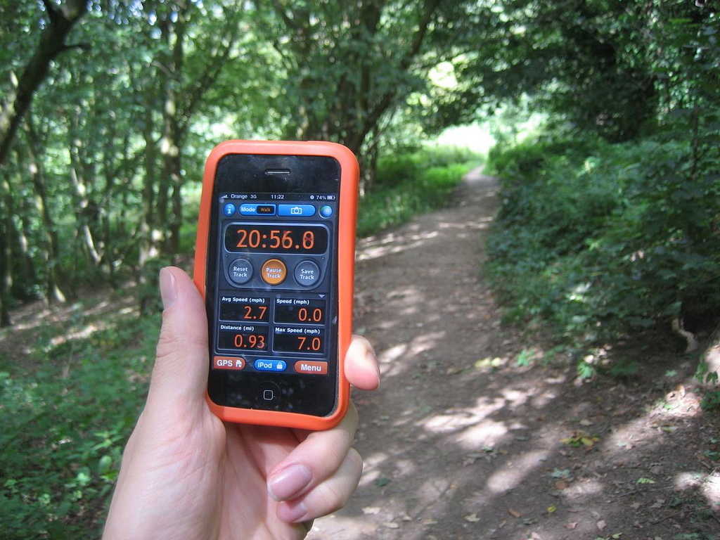 Photo of Harry Wood in the woods holding iPhone running GPS application in order to trace data into OpenStreetMap.